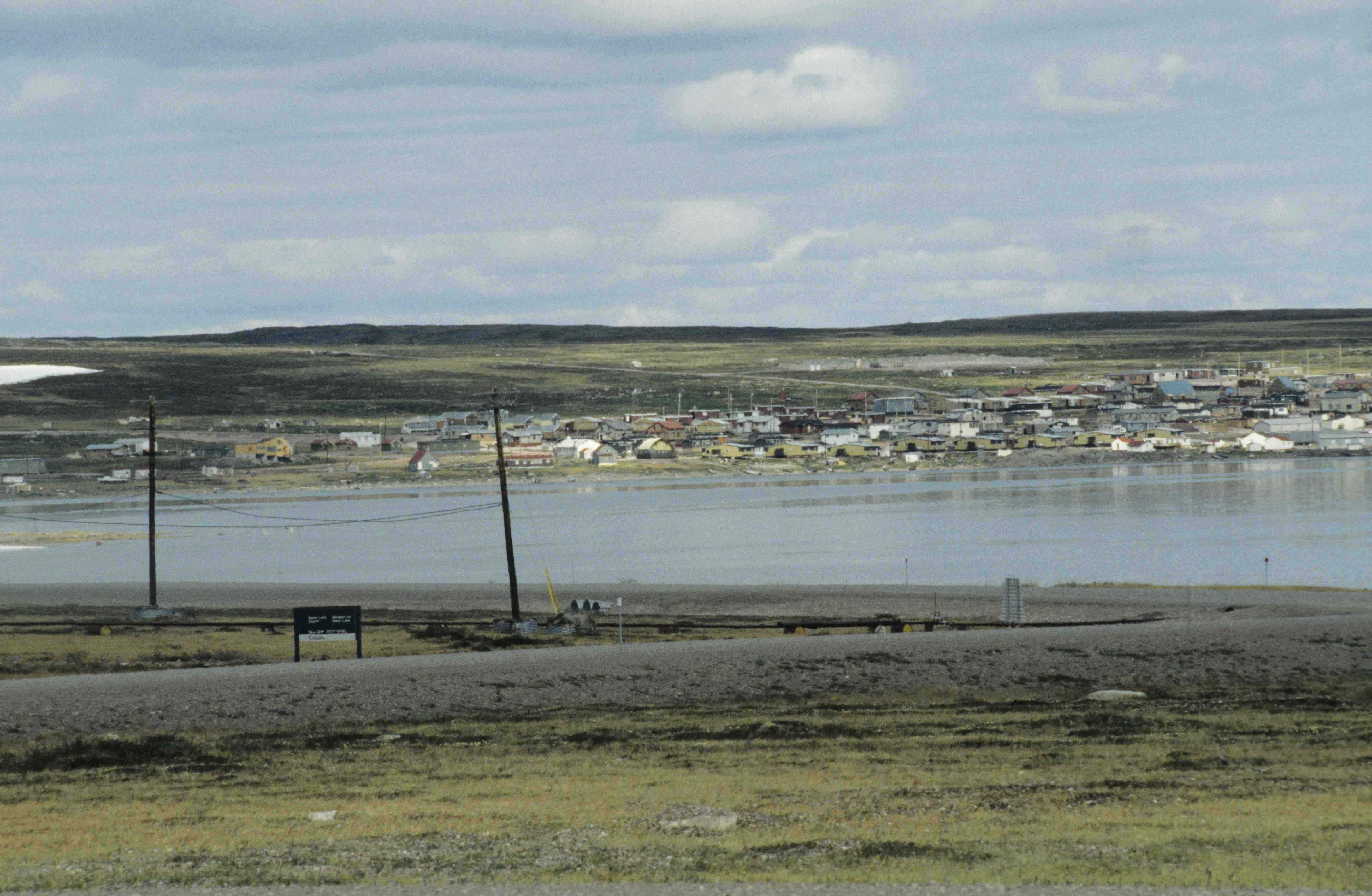 Community of Baker Lake, Nunavut, Canada